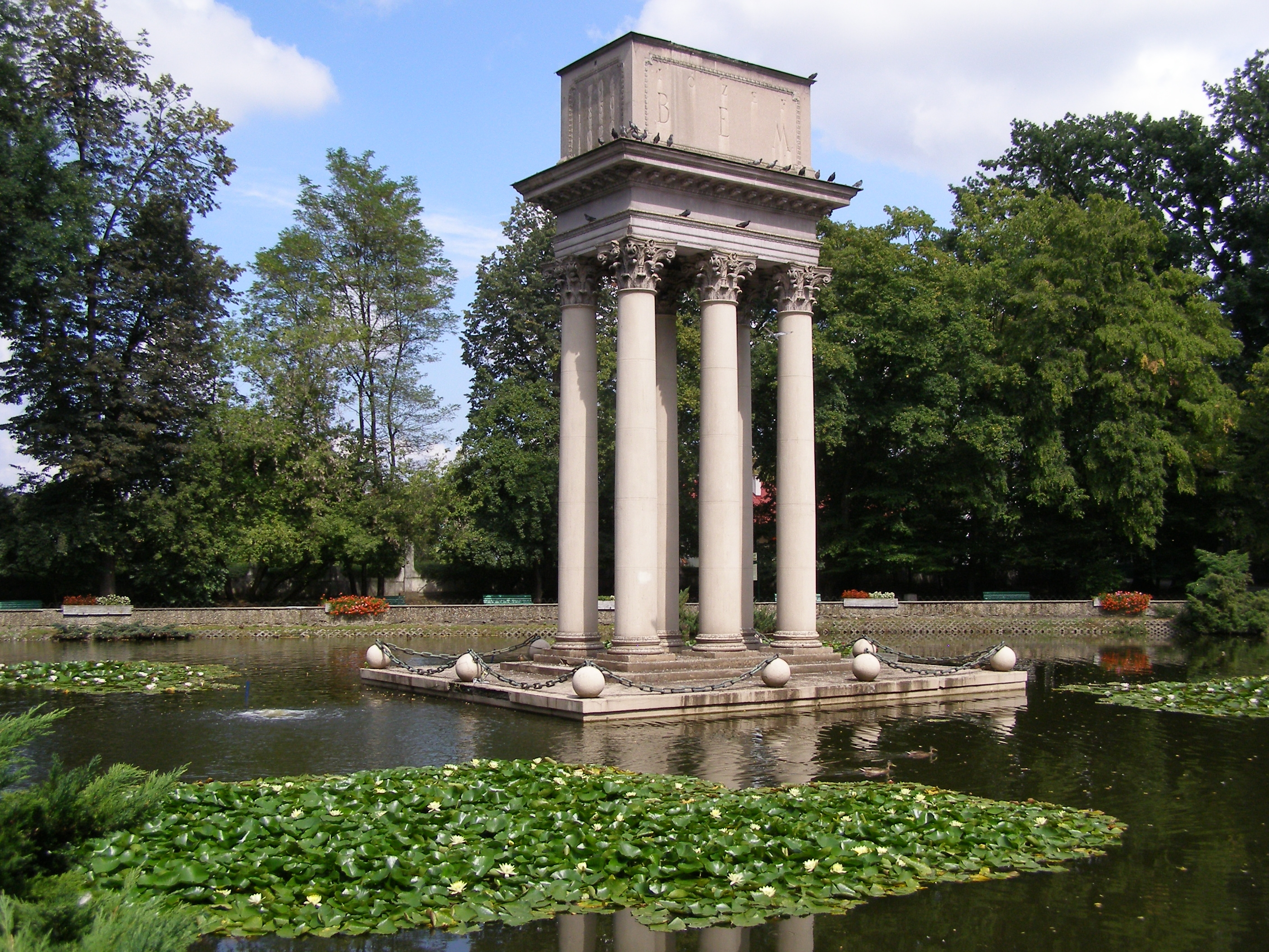 Tarnów - Józef Bem Mausoleum in the Strzelecki Park